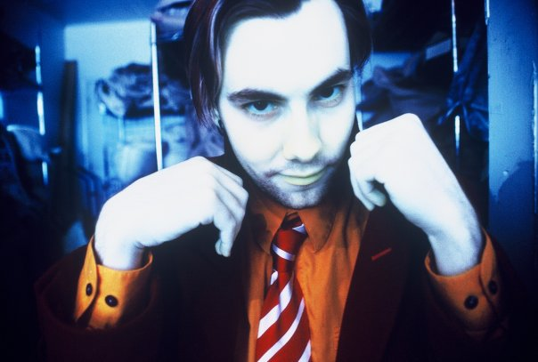 Portrait of Jacob Appelbaum